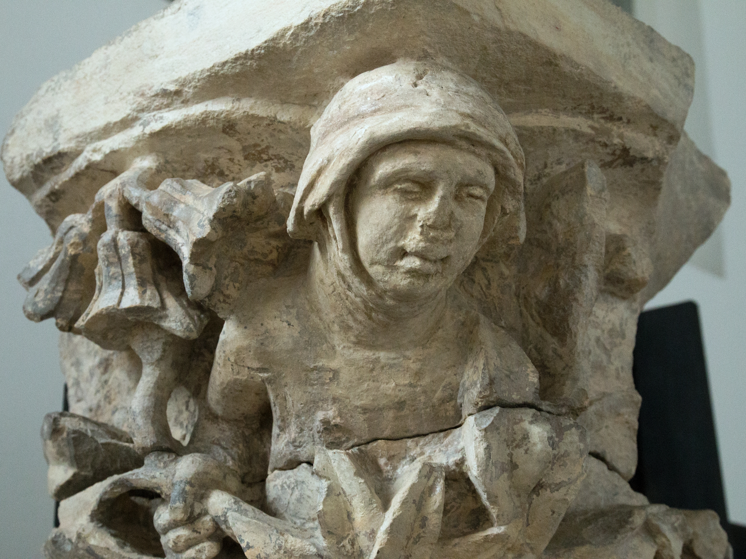 Head of the support with figurine of St. Agnes Bohemian. Church of St. Salvator in the Monastery of St. Agnes Bohemian in the Old Town, after 1261, marlstone Lapidarium of the National Museum in Prague, cat. no. 69.